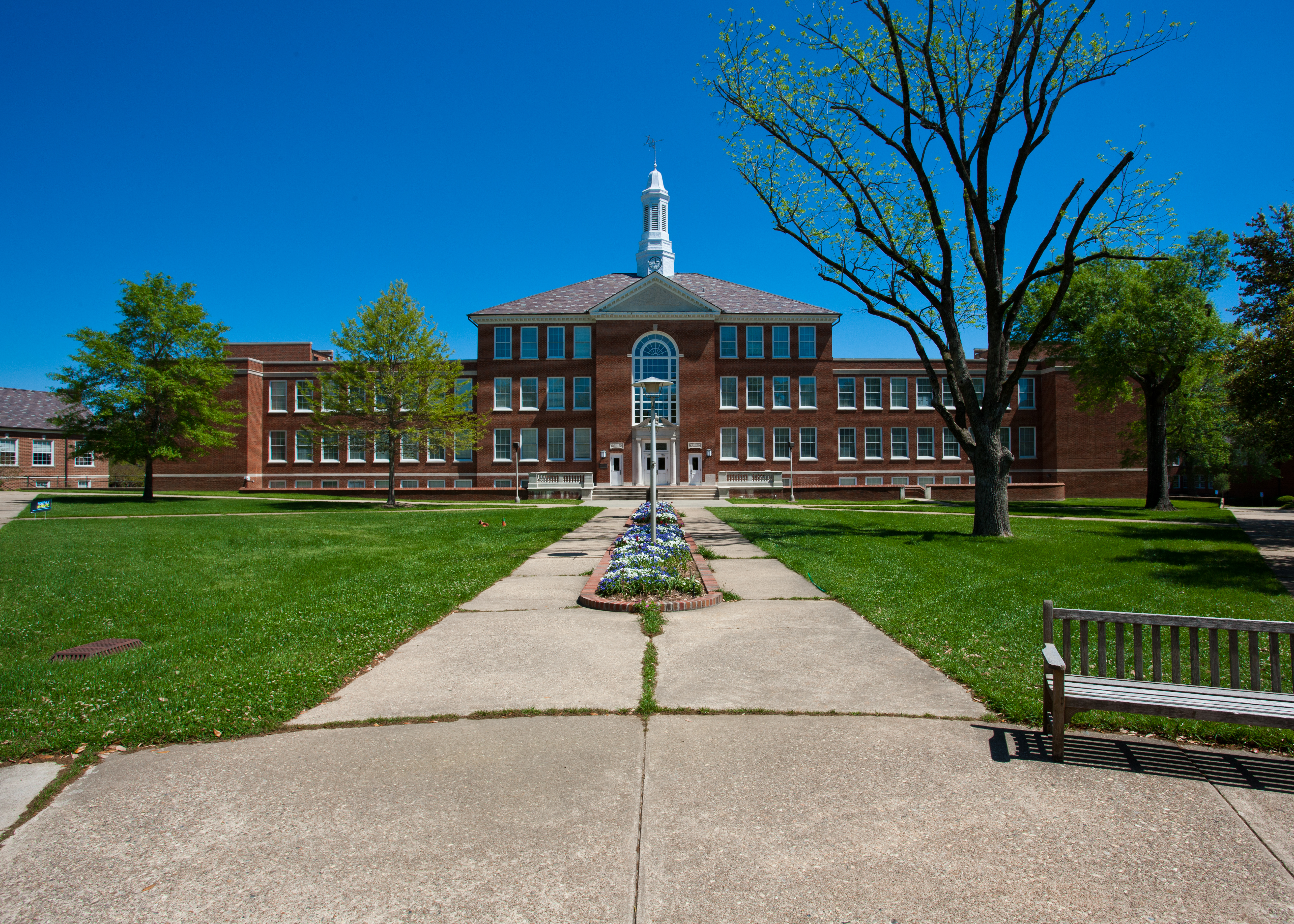 Louisiana Tech University's Keeny Hall. One of the main buildings that sits on the periphery of the Quad.